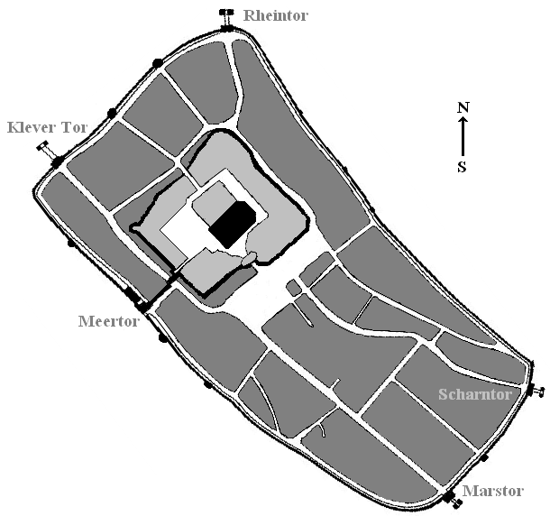 Xanten in the 15th century